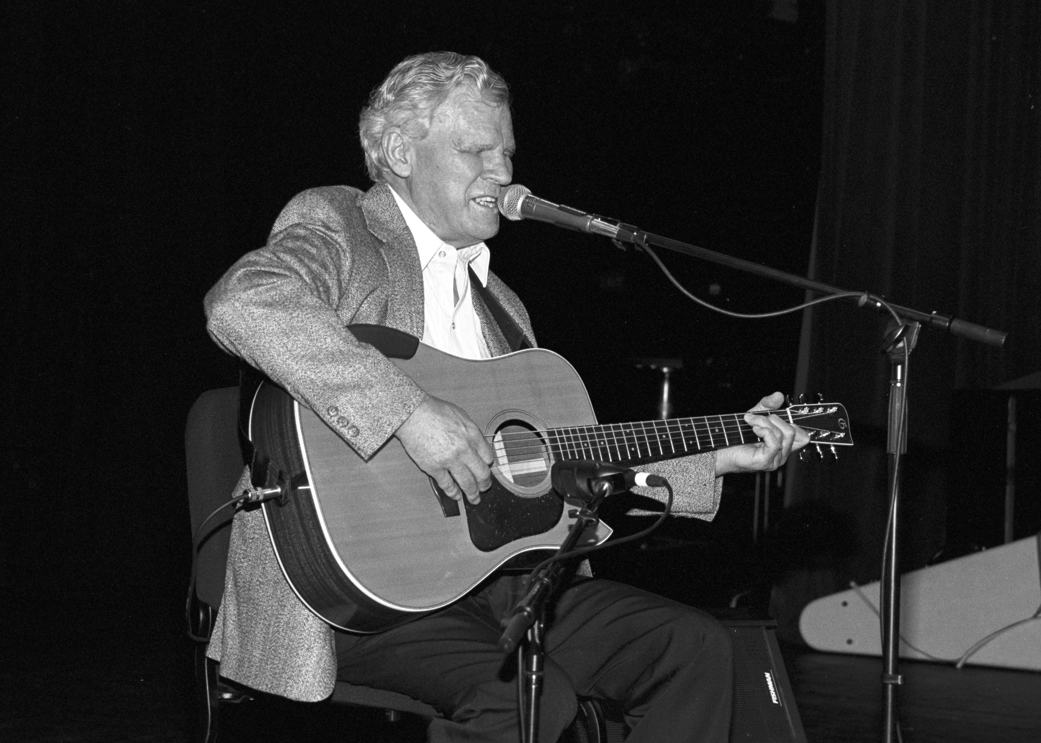 Doc Watson at the North Carolina Folk Heritage Awards in 1994, Raleigh, NC. From the General Negative Collection, State Archives of North Carolina.